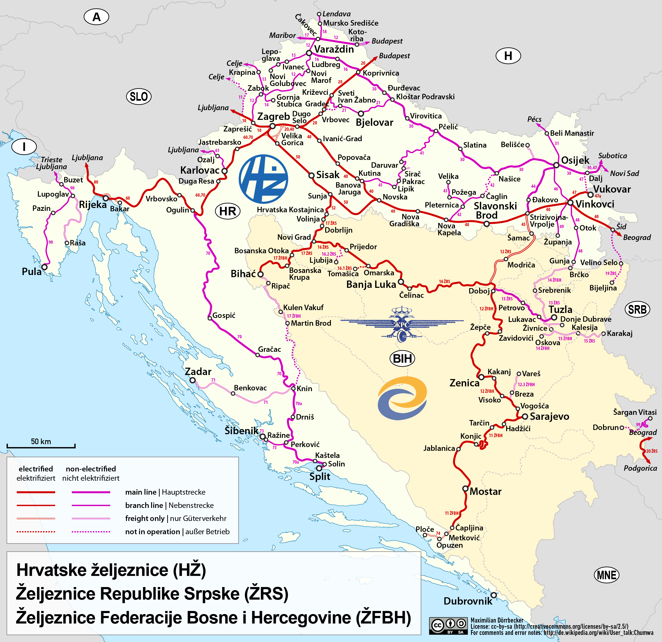 Railway map of Croatia and Bosnia and Herzegovina This transport map image could be re-created using vector graphics as an SVG file. This has several advantages; see Commons:Media for cleanup for more information. If an SVG form of this image is available, please upload it and afterwards replace this template with vector version available|new image name . It is recommended to name the SVG file "Railway map of Croatia and Bosnia and Herzegovina.svg" - then the template Vector version available (or Vva) does not need the new image name parameter.